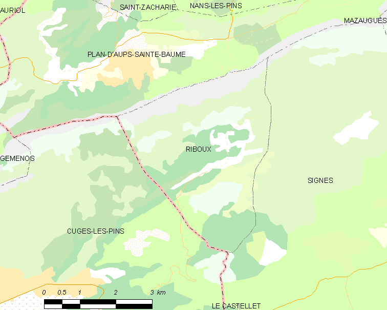 Map of French municipality Riboux